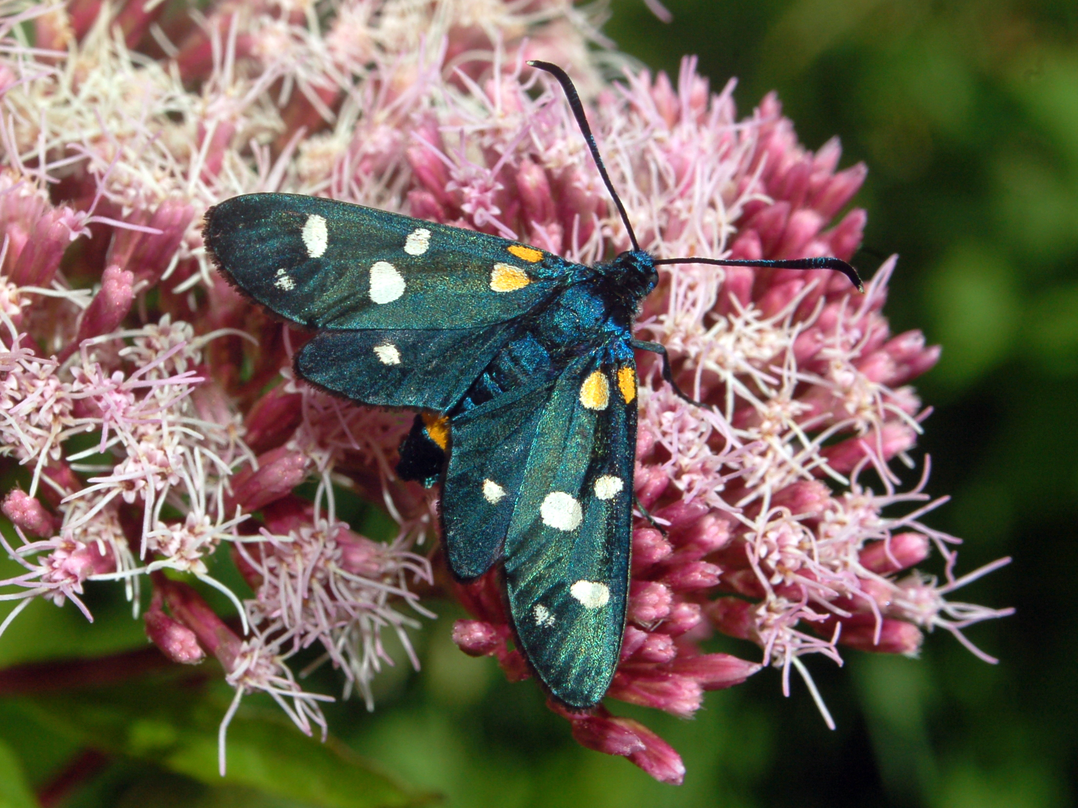 Zygaena ephialtes, ephialtoid form. Regional Park of Antola, Genova, Italy